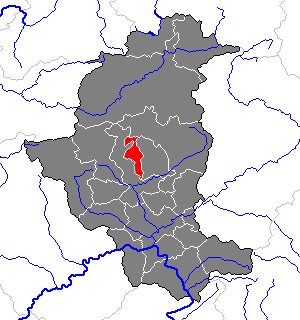 This map shows the area of the Gemeinde (municipality) Aflenz Kurort in the Bezirk (district) Bruck an der Mur, Styria, Austria.